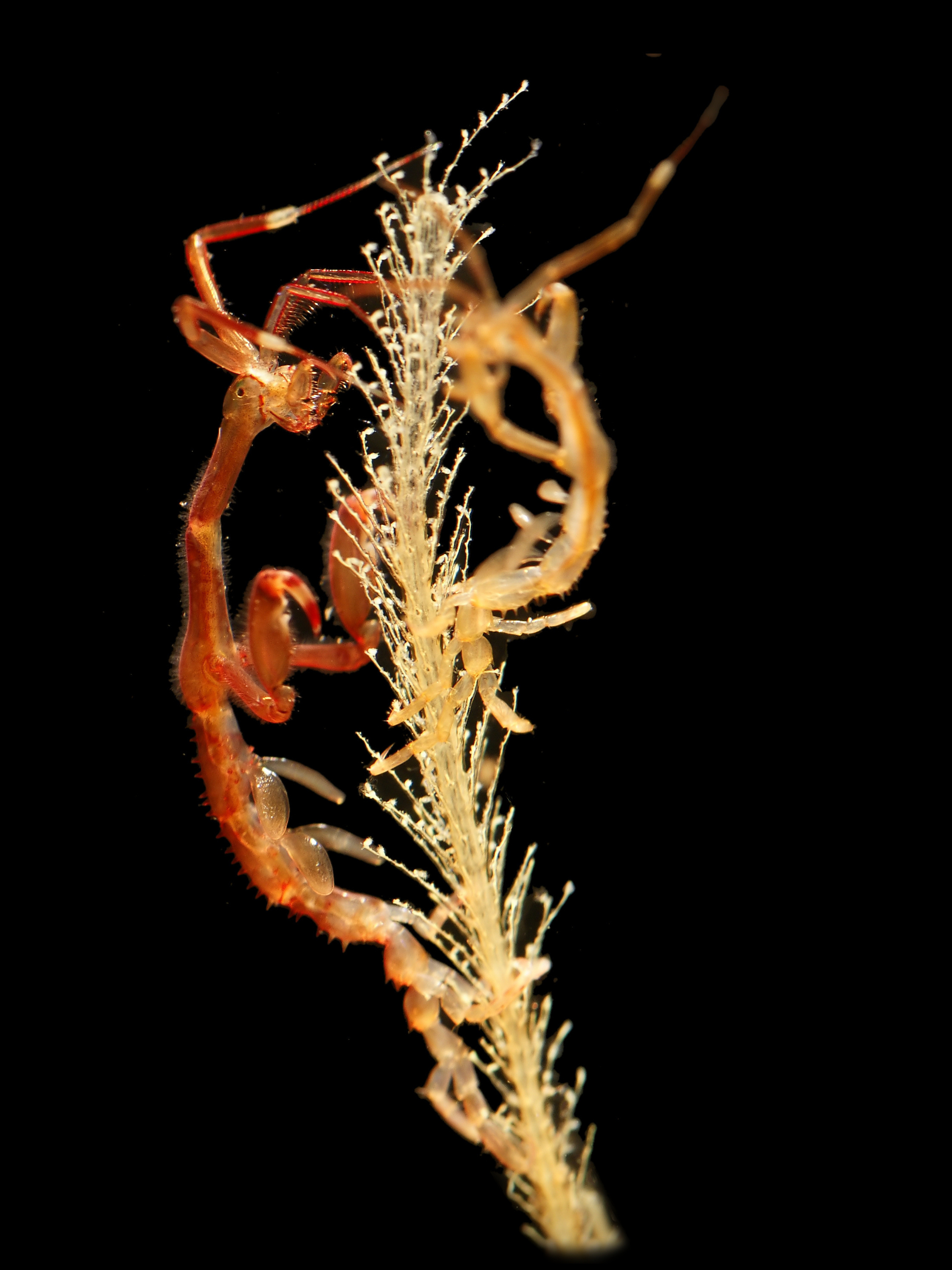 Japanese skeleton shrimp, Belgium